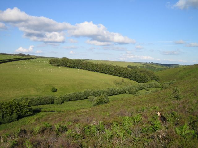 Danes Brook Valley Looking down the valley of the Danes Brook from Moorhouse Ridge.